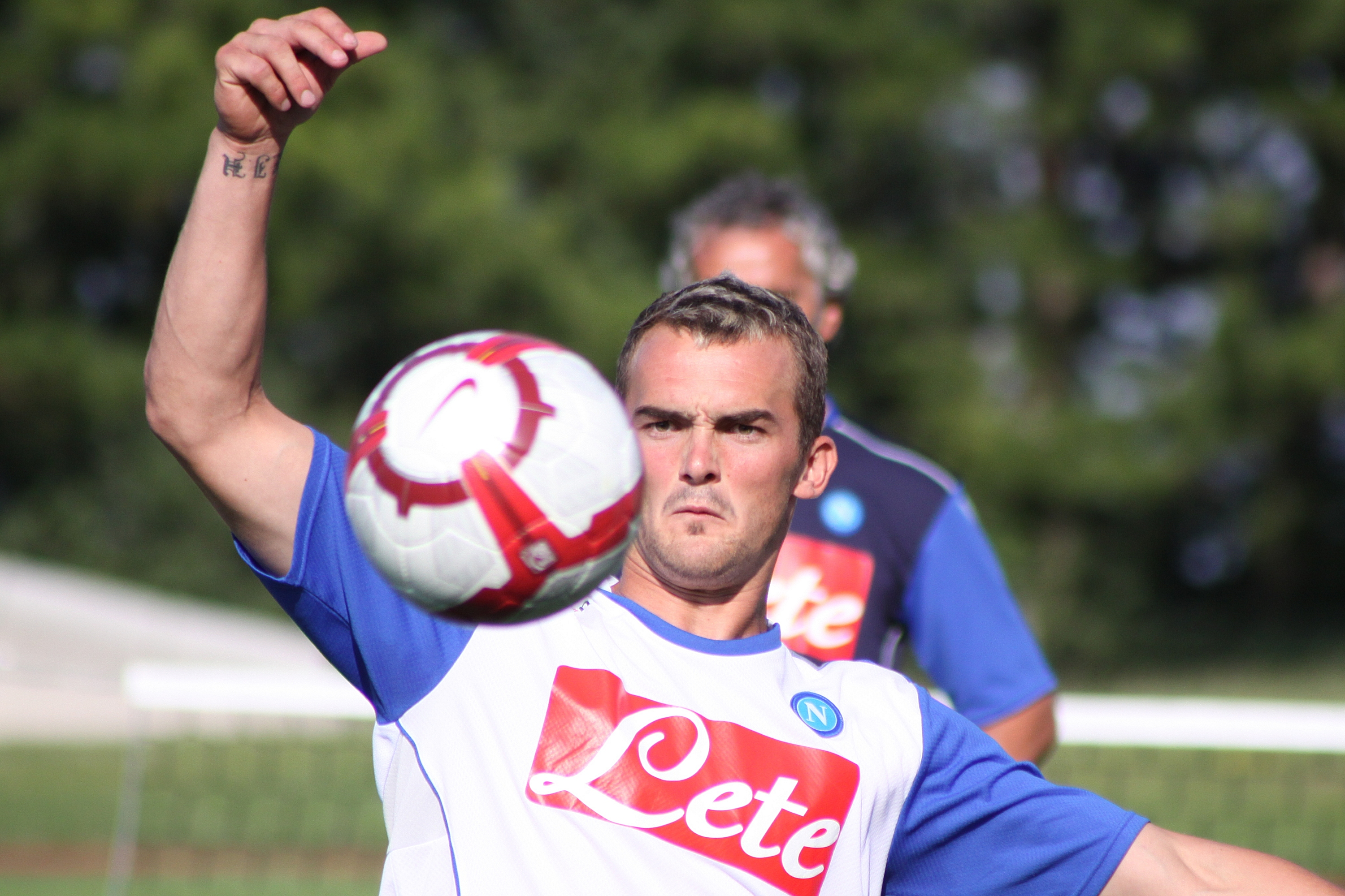 Erwin Hoffer - SSC Neapel (3) Erwin Hoffer - Società Sportiva Calcio Napoli